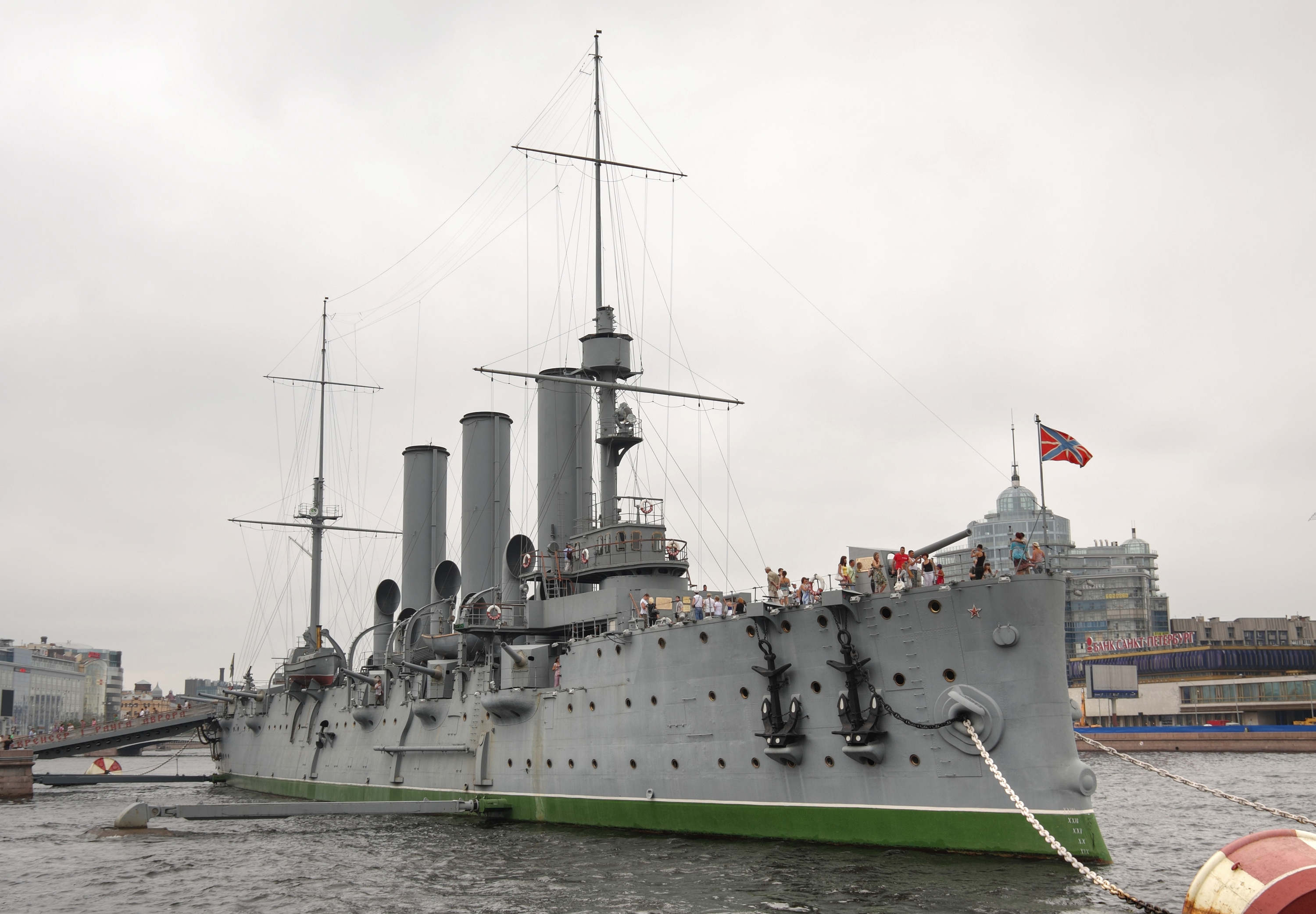 Russian protected cruiser Aurora, launched in 1903, now preserved as a museum in St Petersburg. In 1917 one of the first incidents of the October Revolution took place on the cruiser.